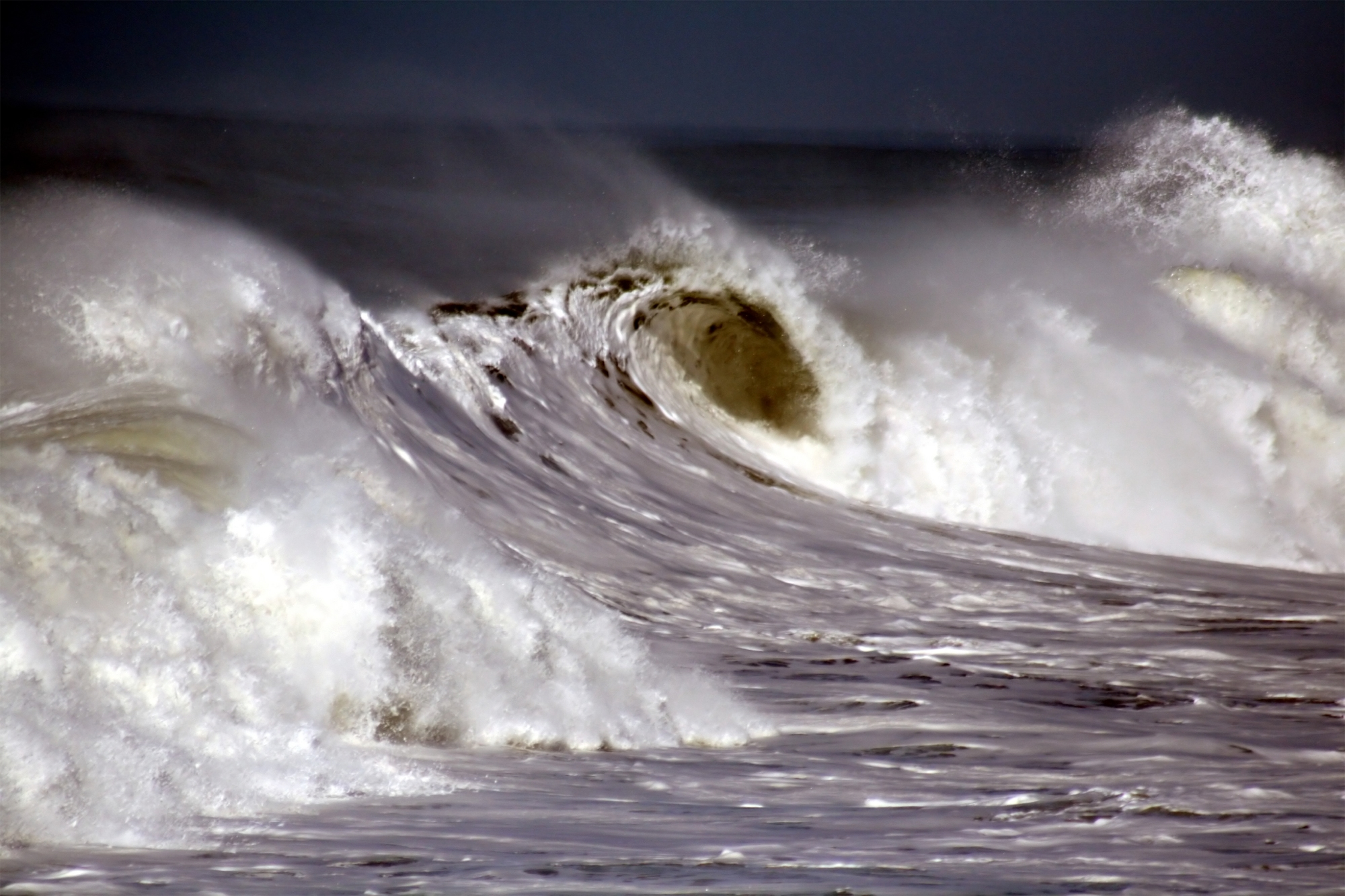 Sea Storm in Pacifica, California